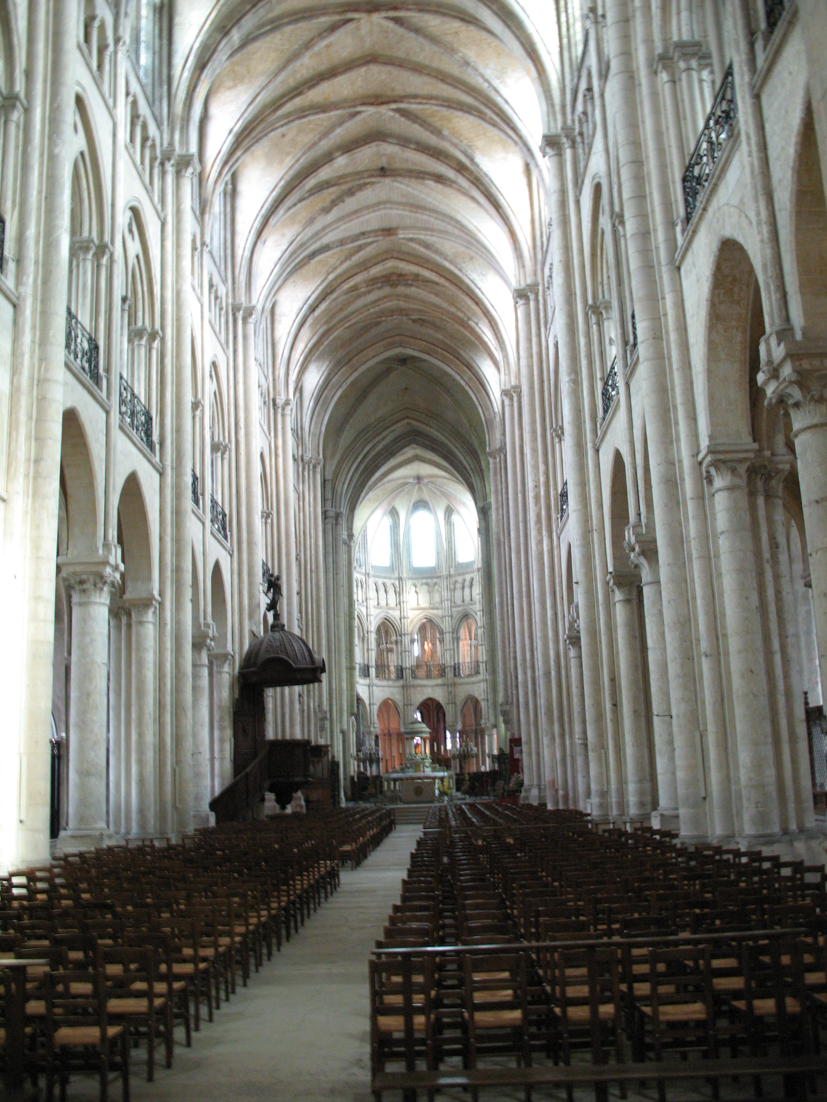 Cathedral of Noyon, interior